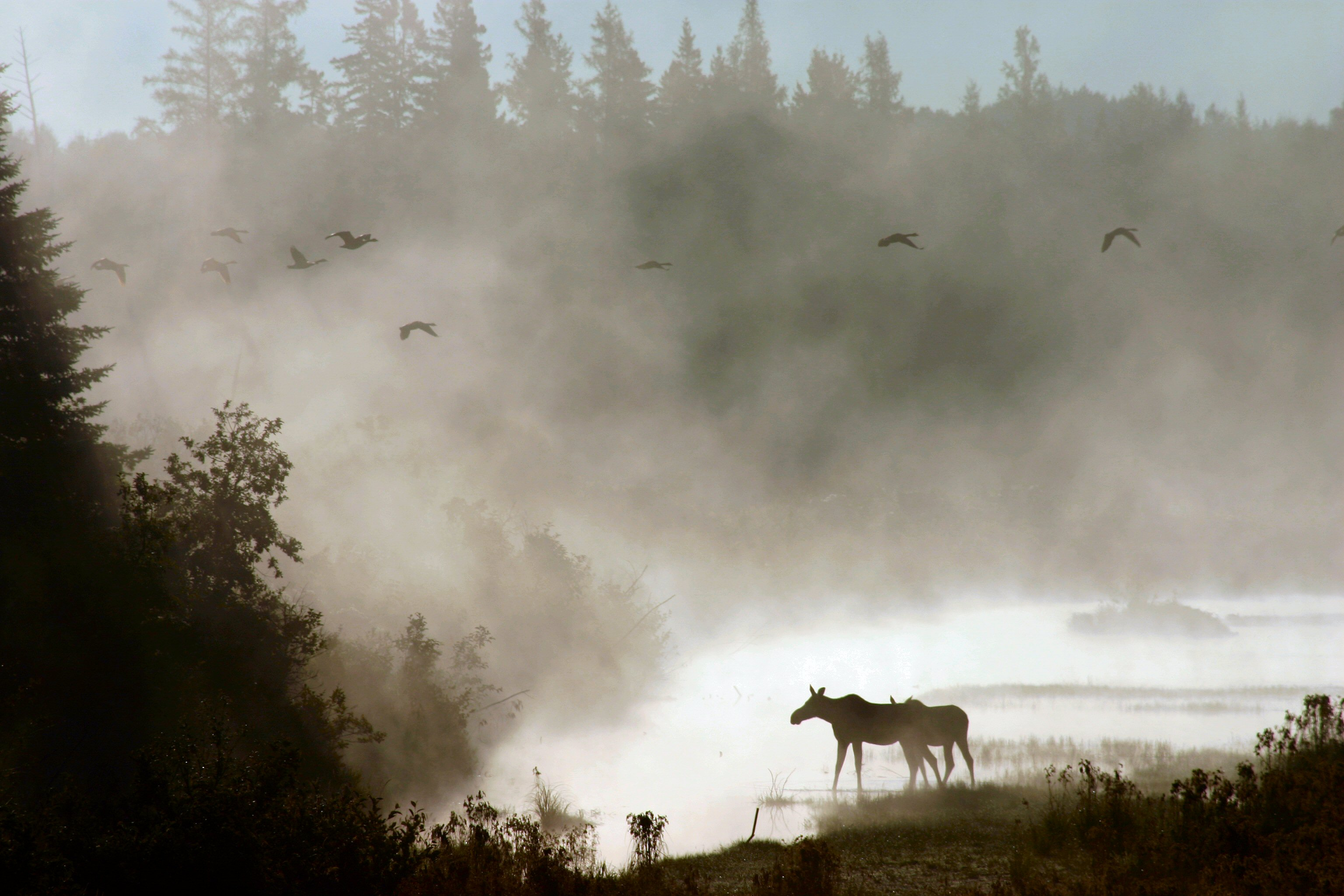 Photo of the Week - 2/17/14 Moose at Aroostook National Wildlife Refuge in Maine. Take a winter getaway at the refuge's annual cross country ski race and ski clinic in March! There's plenty of time to plan ahead. Credit: Sharon Wallace - Please contact the photographer for permission to use this photo at